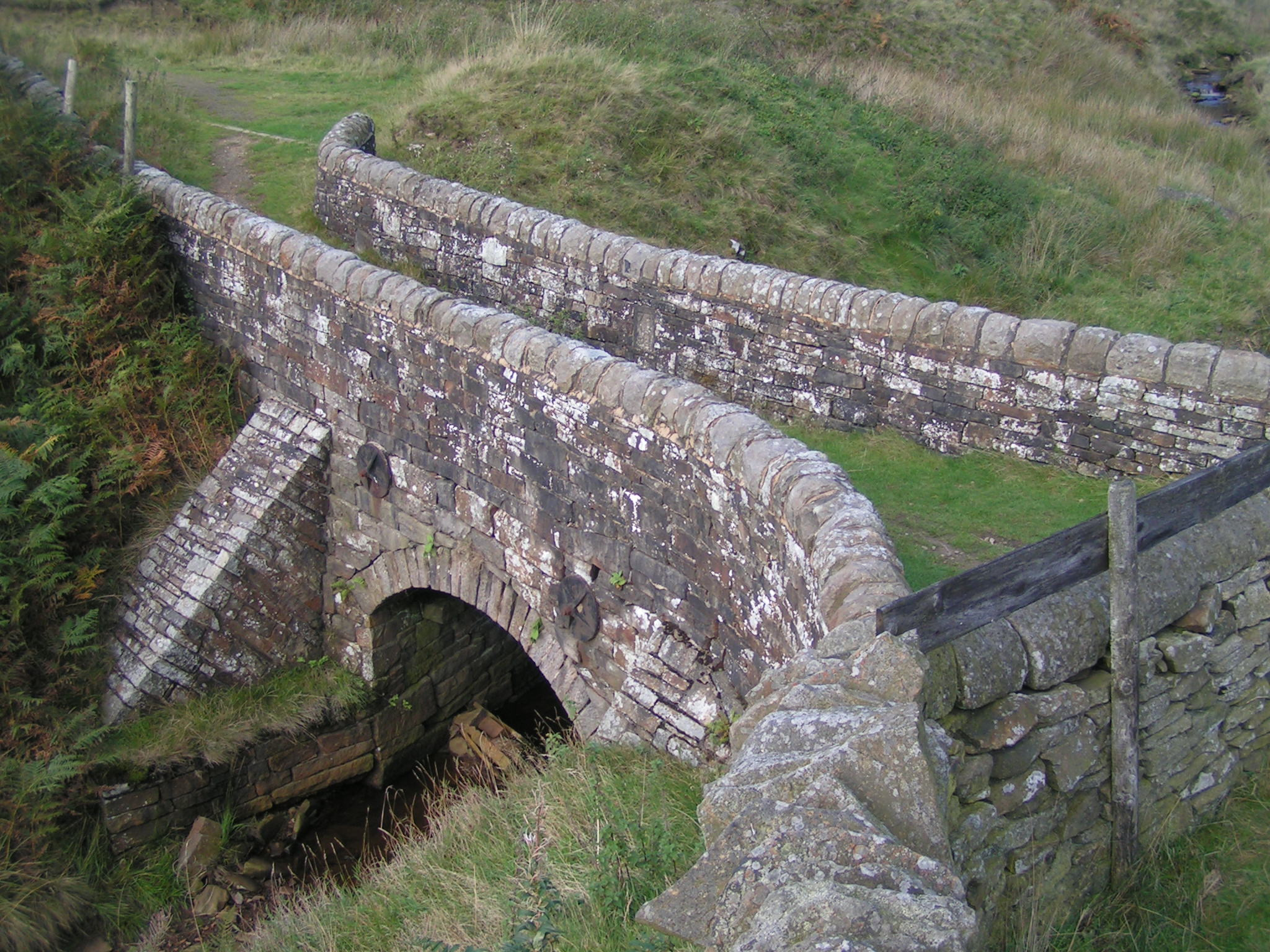 Lady Shaw Bridge, a 17th-century packhorse bridge in Longdendale, Derbyshire.